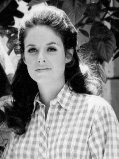 Photo of Andrew Duggan and Elizabeth Baur from the premiere of the television program Lancer.